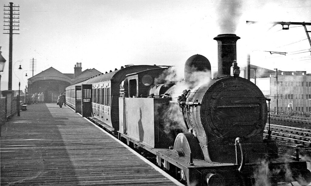 Romford Station: the Upminster platform, with branch train. View westward, towards London. This platform was at an ex-Midland (London, Tilbury & Southend) station separate until 1934 from the ex-Great Eastern station on the main line from Liverpool Street. The branch to Upminster and on to Grays was single-line and in 1950 - long before its electrification in May 1986, it was being worked by a steam push-and-pull set, here with Johnson/Deeley 0-4-4T No. 58089.